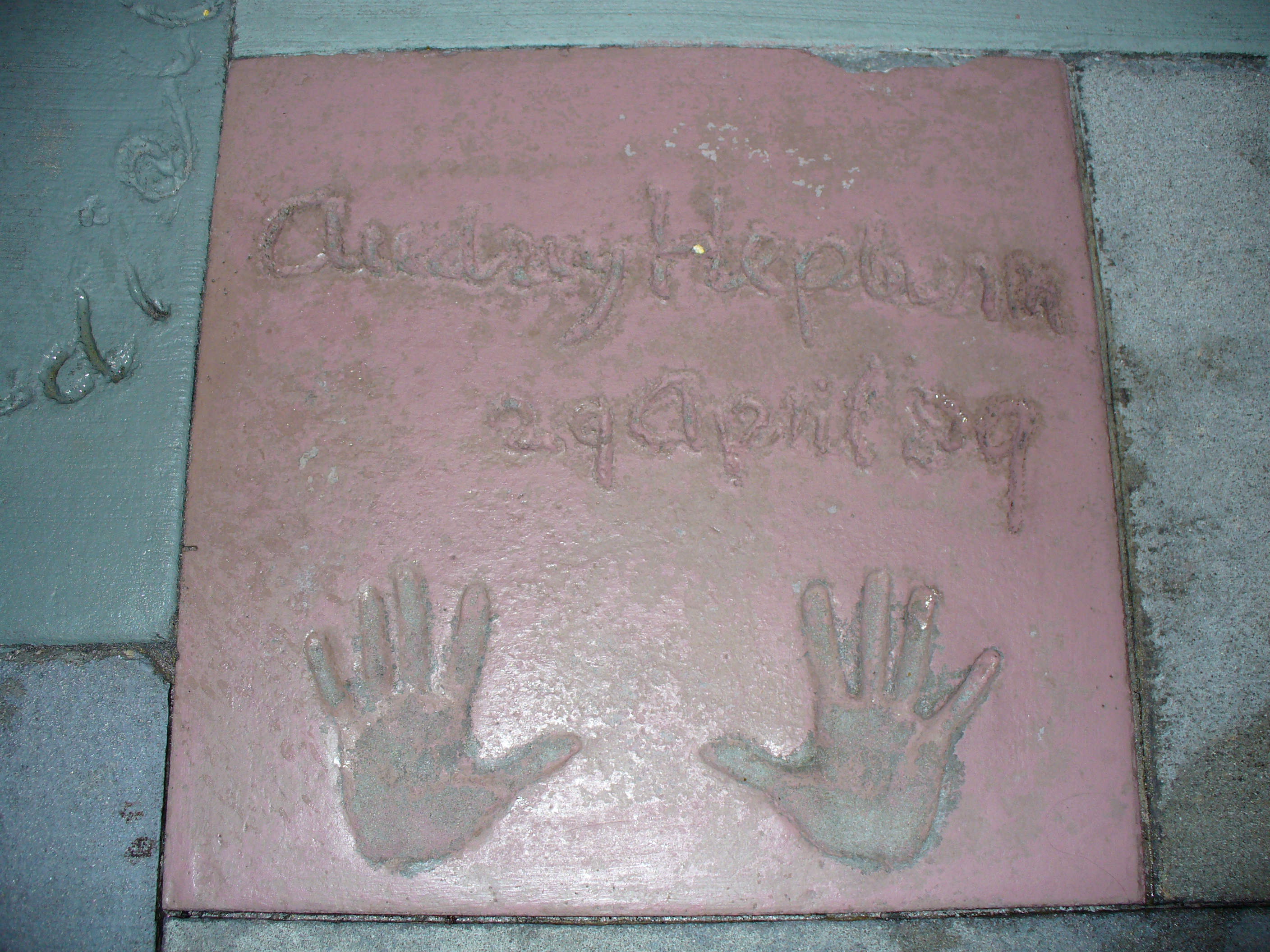 I am the originator of this photo. I hold the copyright. I release it to the public domain. This photo depicts the handprints of Audrey Hepburn in front of The Great Movie Ride at Walt Disney World's Disney's Hollywood Studios theme park.